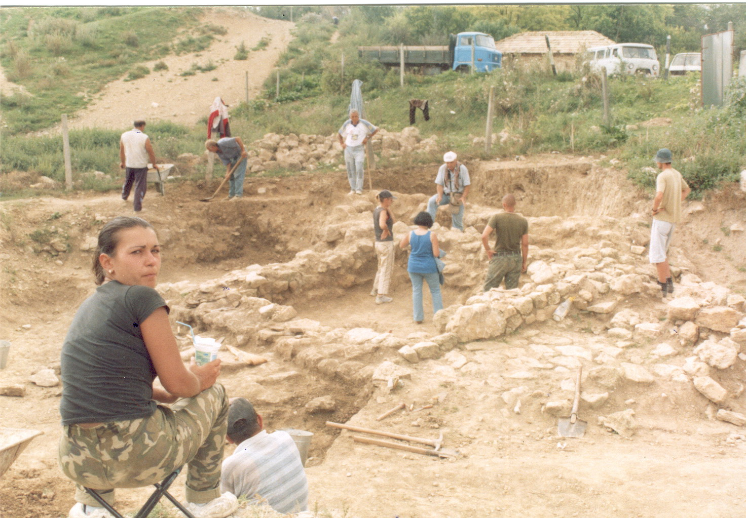 Instance of the archeological investigations of the medieval buildings and necropolis in the town of Opaka, Bulgaria, performed by students and teachers from the Veliko Turnovo University and local people